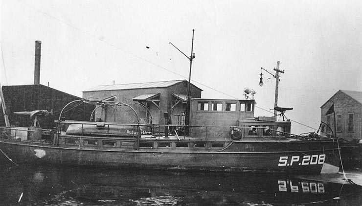 Removed caption read: Photo # NH 100568 - USS Abalone, photographed in 1917-18